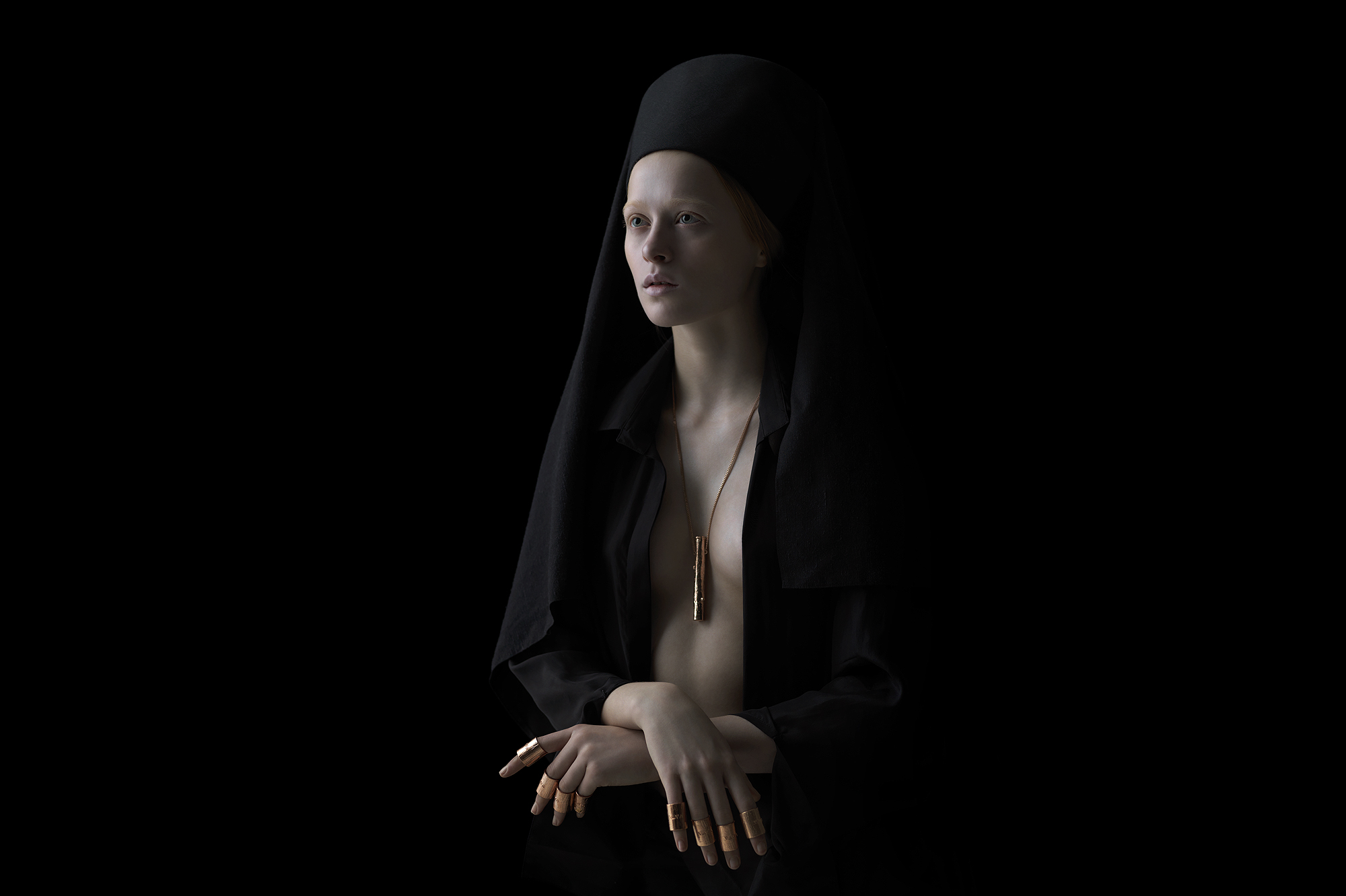 Jewels by the Norwegian designer Bjørg Nordli-Mathisen. "The secret carrier" - necpiece